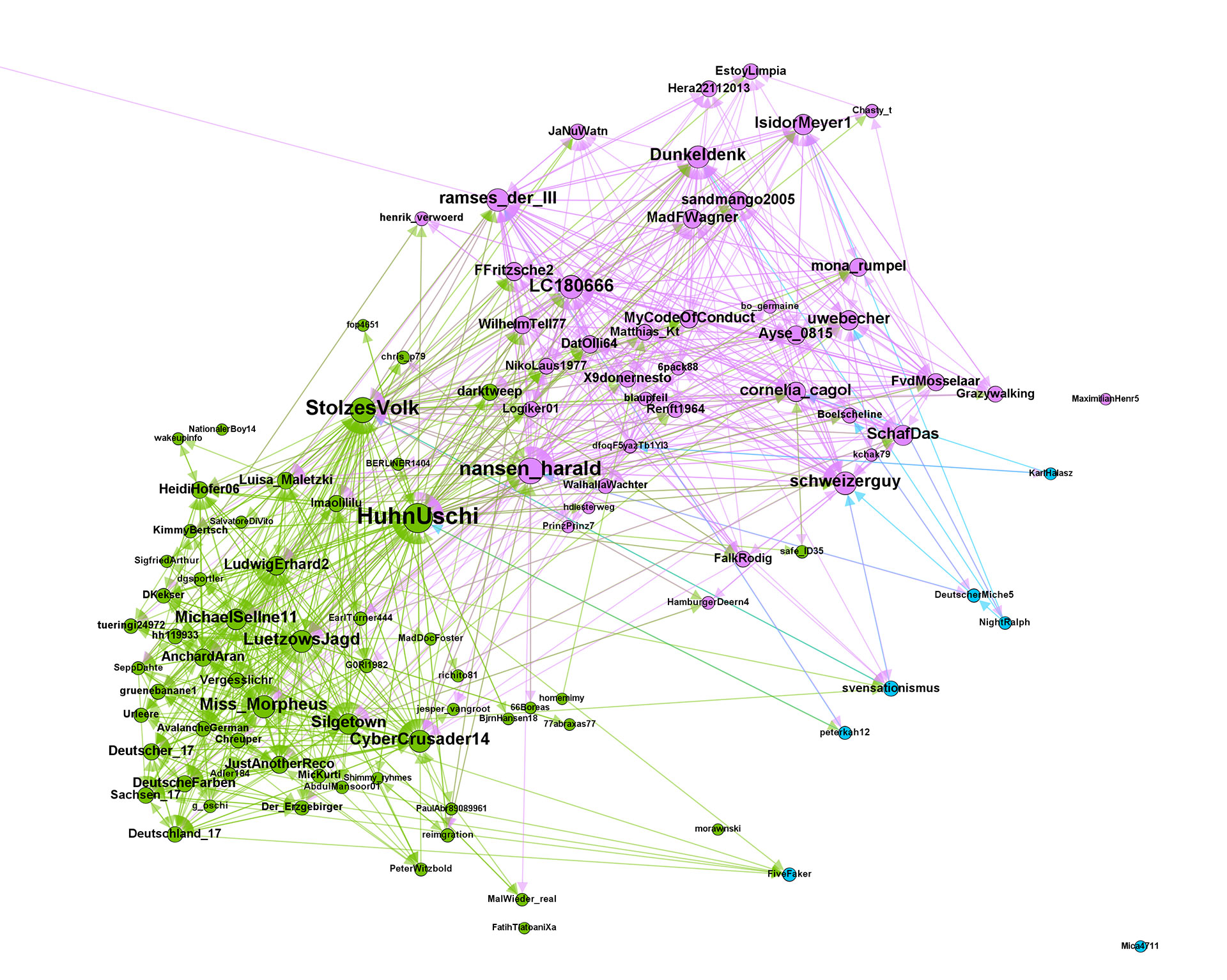 German far right network Reconquista Germanica on Twitter